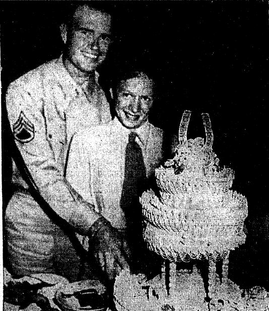 Ola Lilith and Leland M. Benton Wedding 1944